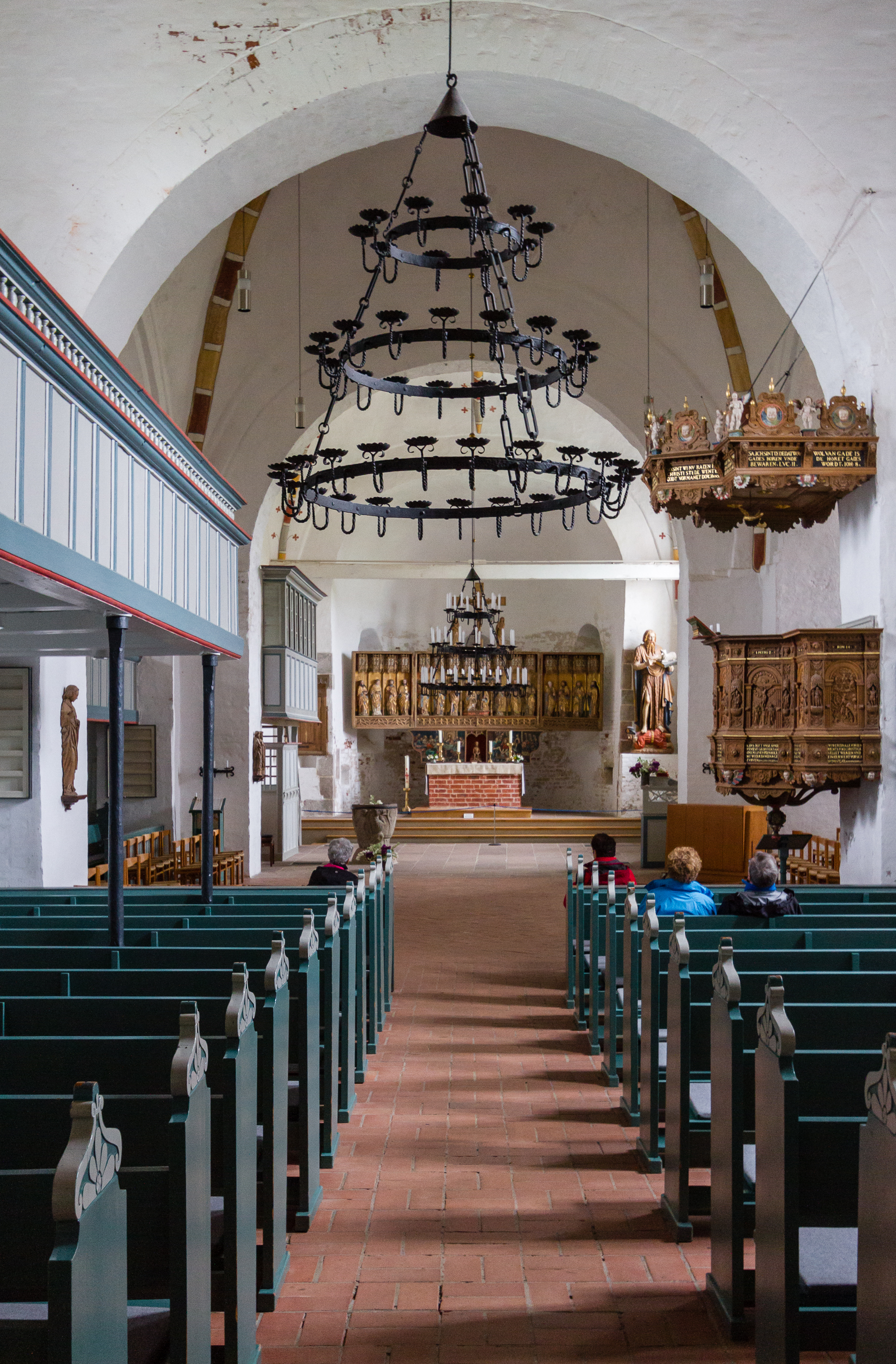 This is a photograph of an architectural monument. Designation: Church St. Johannis mit equipment Construction time: 12th century Description: The Protestant church was built in the 12th century. In the 13th century the church was extended. Inside there is a carved altar from the time around 1480. The granite baptismal font dates from the period around 1200. The pulpit was built in 1618. Category: Structural component, Material entity: Church St. Johannis Place: Municipality Nieblum, Collective municipality Föhr-Amrum, District Nordfriesland, Schleswig-Holstein, Germany Location: Karkstieg